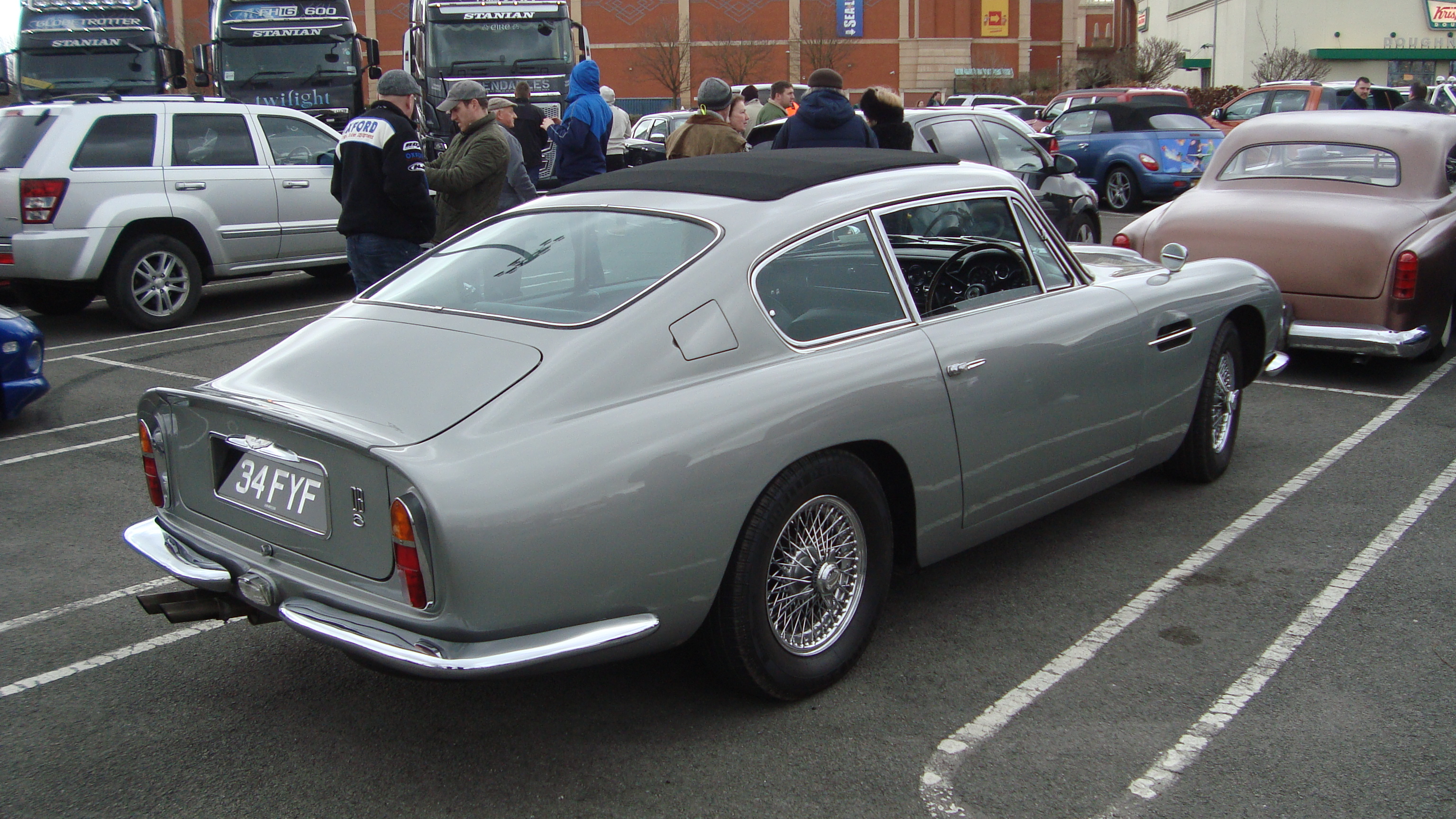 1968 Aston Martin DB6